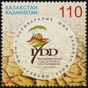 Stamp of Kazakhstan